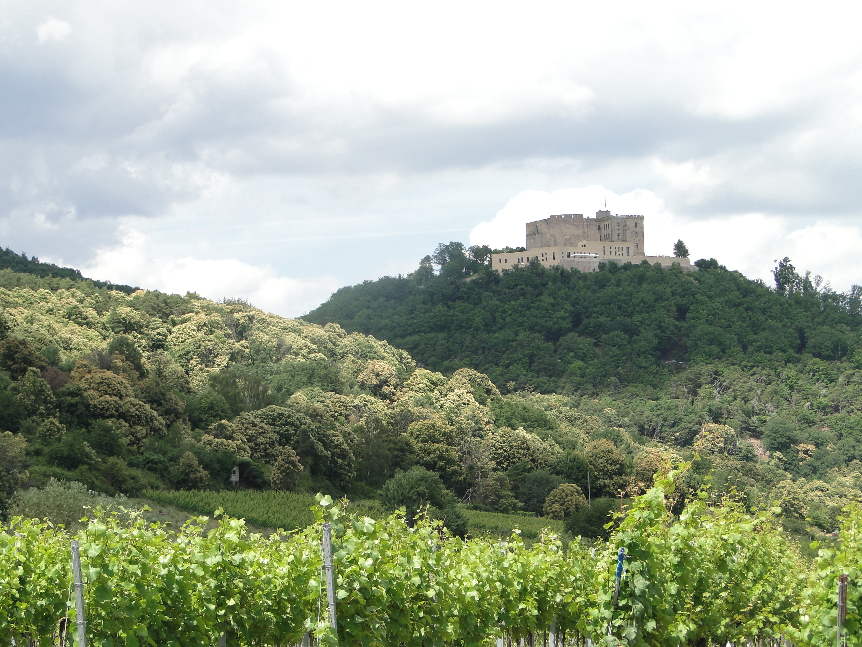 Hambacher Schloss in the palatinate above vineyards and chestnut trees